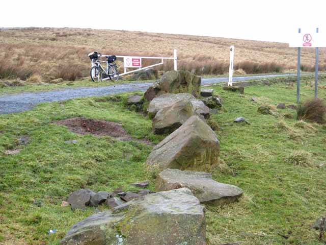 Featherwood East Roman Camp The MOD Otterburn Training Area includes innumerable archaeological sites from all periods of history. The area is traversed by Dere Street, the Roman Road which ran from York to Falkirk and possibly beyond Dere_Stree . The section between Brigantium (Rochester) and Chew Green crosses a tract of bleak high moorland in excess of 400 m in altitude. Although not much to look at, the remains of a Roman camp which lay slightly to the east of Dere Street can be seen here beyond the roadway. The camp is almost square in shape with rounded corners. It measures some 400m square within a rampart 3.8m wide. and dates from the first century AD Roman occupation of Britain.